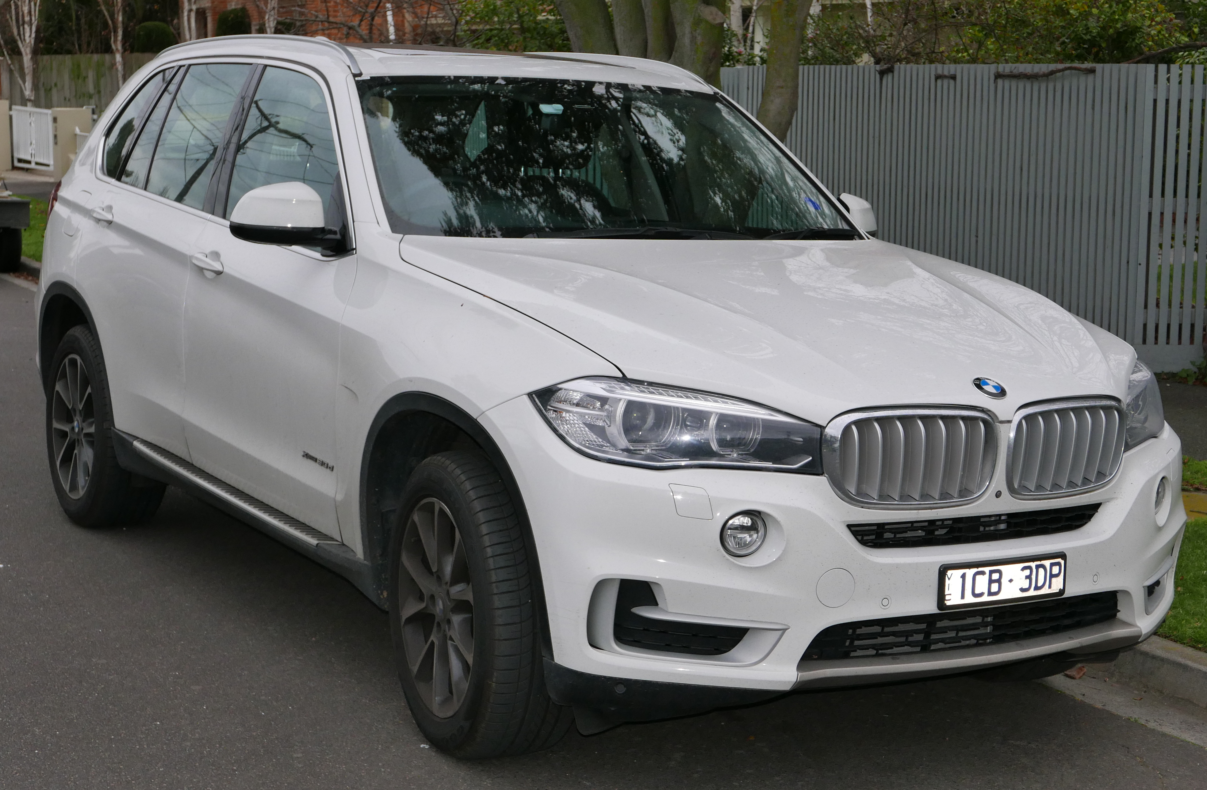 2014 BMW X5 (F15) xDrive30d wagon. Photographed in Brighton, Victoria, Australia. Vehicle registration enquiry resultsJurisdictionVictoriaRegistration1CB3DPChassis codeWBAKS420400G62817Engine code32158686Compliance date2014-01Year of manufacture2014